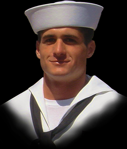 Portrait of Medal of Honor recipient Mike Monsoor